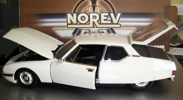 Norev Citroen SM